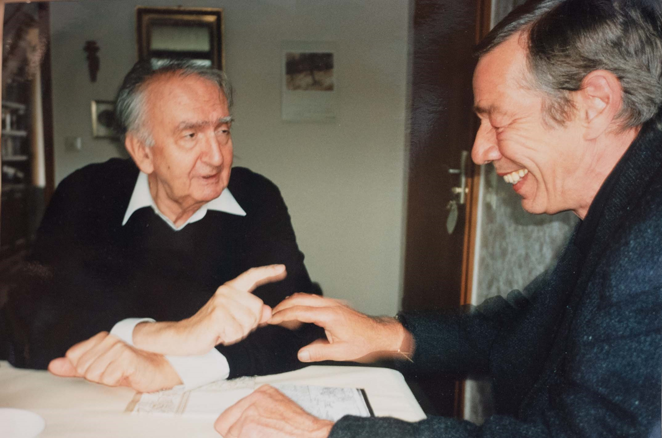 Miodrag Pavlovic, Serbian poeth and writer, and Peter Urban, writer and translator Српски (ћирилица): Миодраг Павловић, српски песник, и Петер Урбан, немачки преводилац, били су дугогодишњи пријатељи.